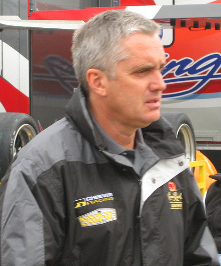 Eddie Cheever in 2008